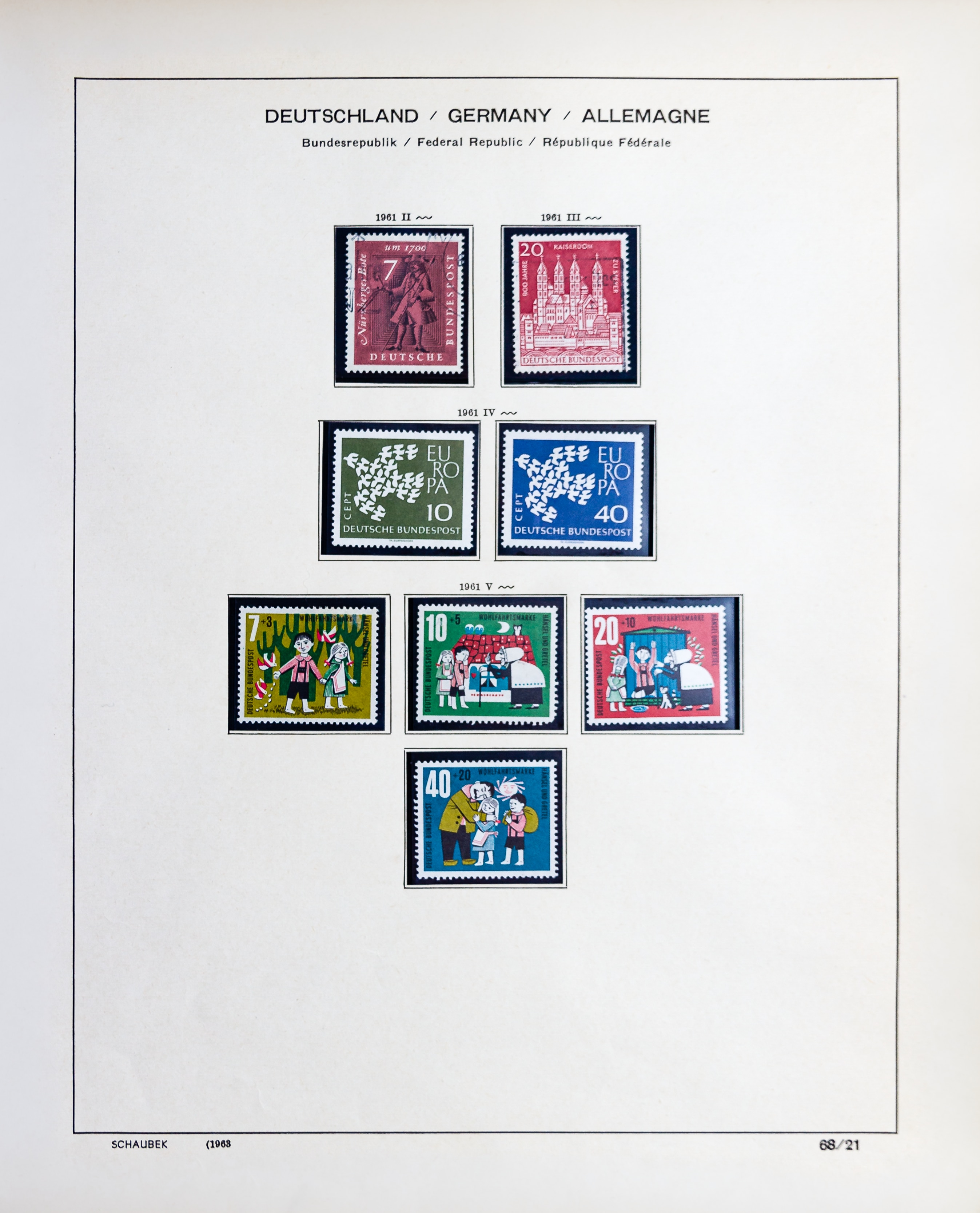 Stamp collection